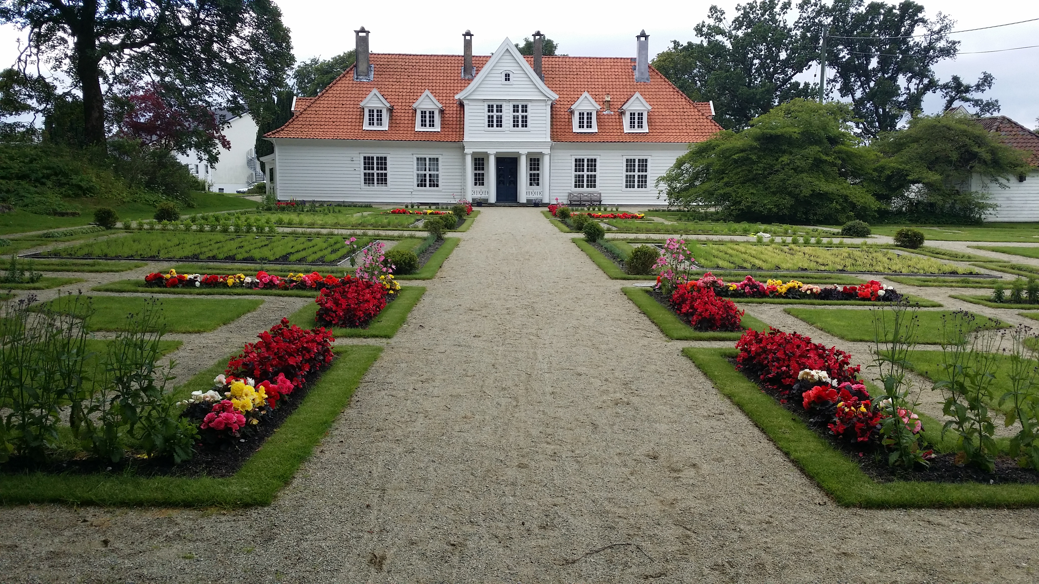 Stend Garden, 2015